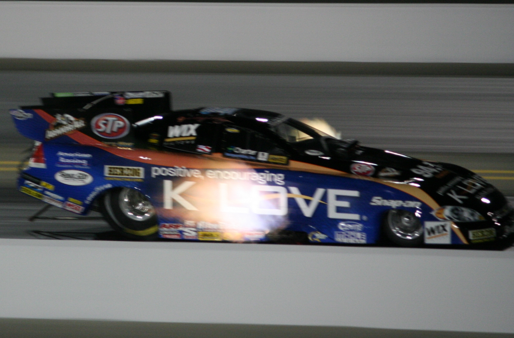 Tony Pedregon runs down the track during qualifying for the 2011 O'Reilly Auto Parts NHRA Nationals at zMax Dragway (Charlotte Motor Speedway) in Concord, North Carolina, September 16 2011.